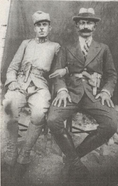 Jandarma and Rehber (Reyber Qop)